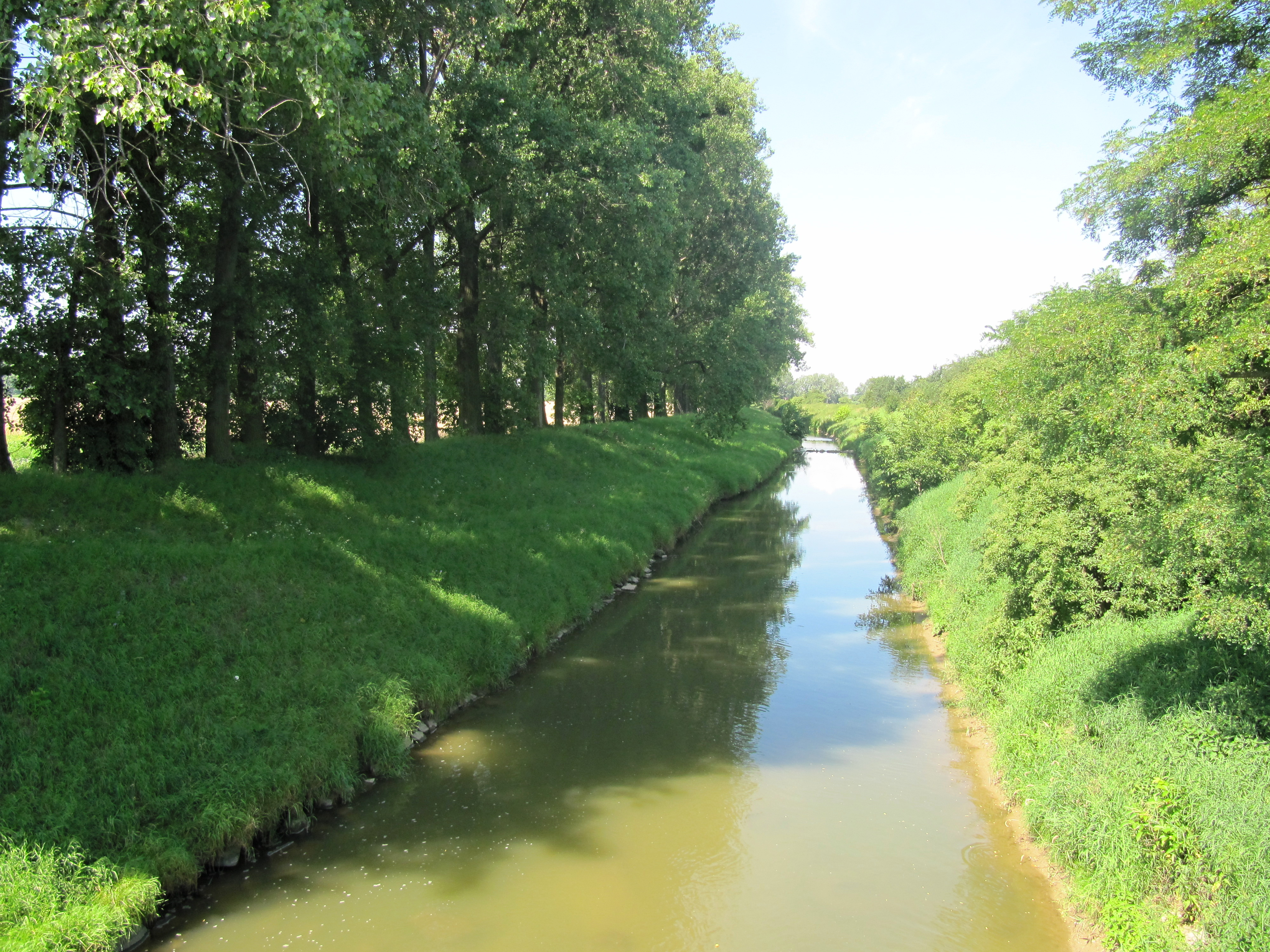 Žalkovice, Kroměříž District, Czech Republic. Moštěnka River.